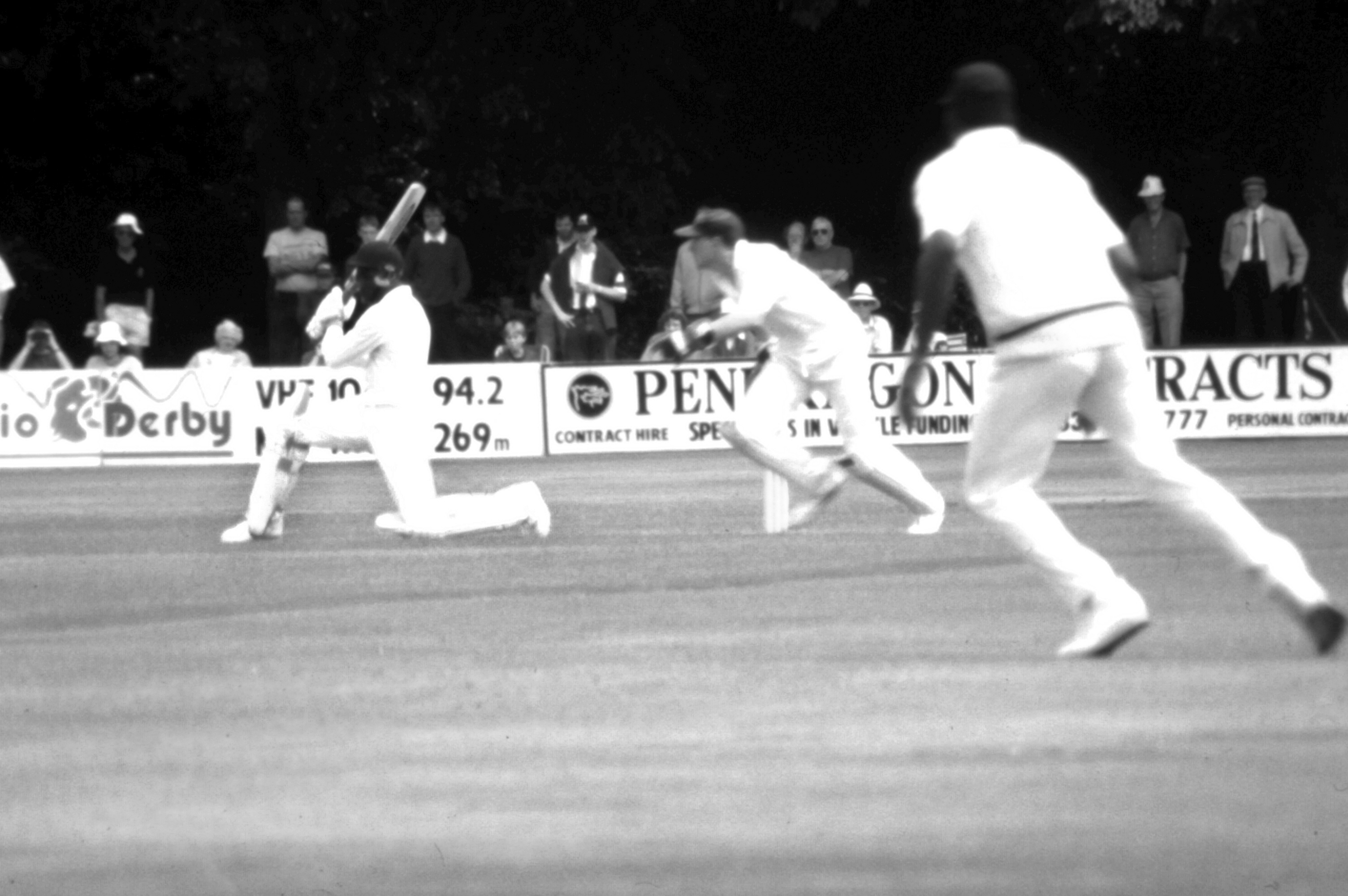 A rather different kind of cricket match at Chesterfield's Queen's Park. Not the best quality image [converted from a slide], but it still gives a good view of the imperious Brian Lara. Taken in 1994 during Lara's innings of 142 [out of a total of 280] for Warwickshire against Derbyshire, the great batsman has just driven another ball to the boundary; Karl Krikken and Devon Malcolm are the Derbyshire fielders. I remember there was a big crowd for this game and they all enjoyed it thoroughly, despite Derbyshire getting a pasting. Lara had a great year in 1994, scoring shedloads of runs including that record 501 not out against Durham.